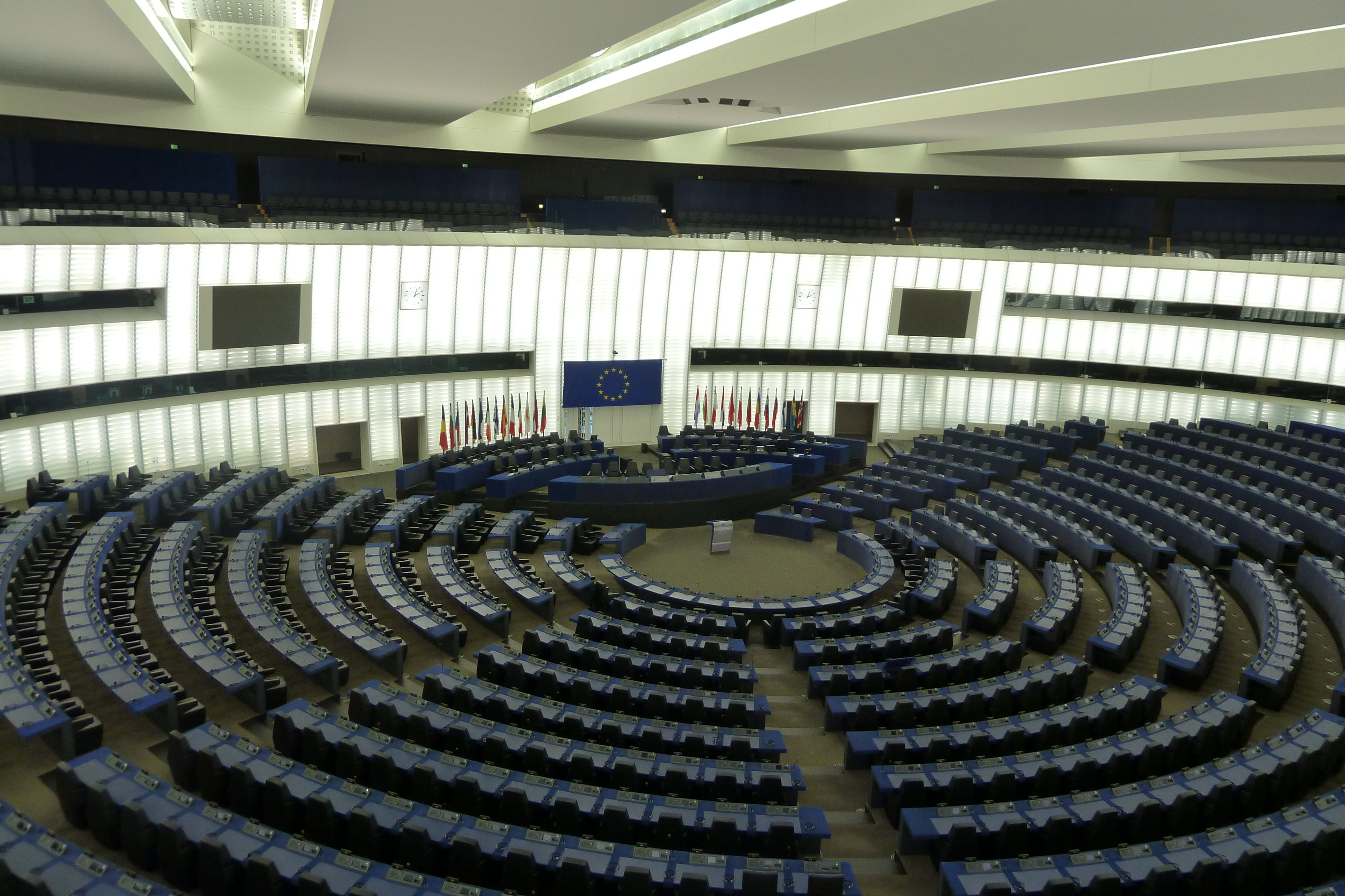 European Parliament, Strasbourg